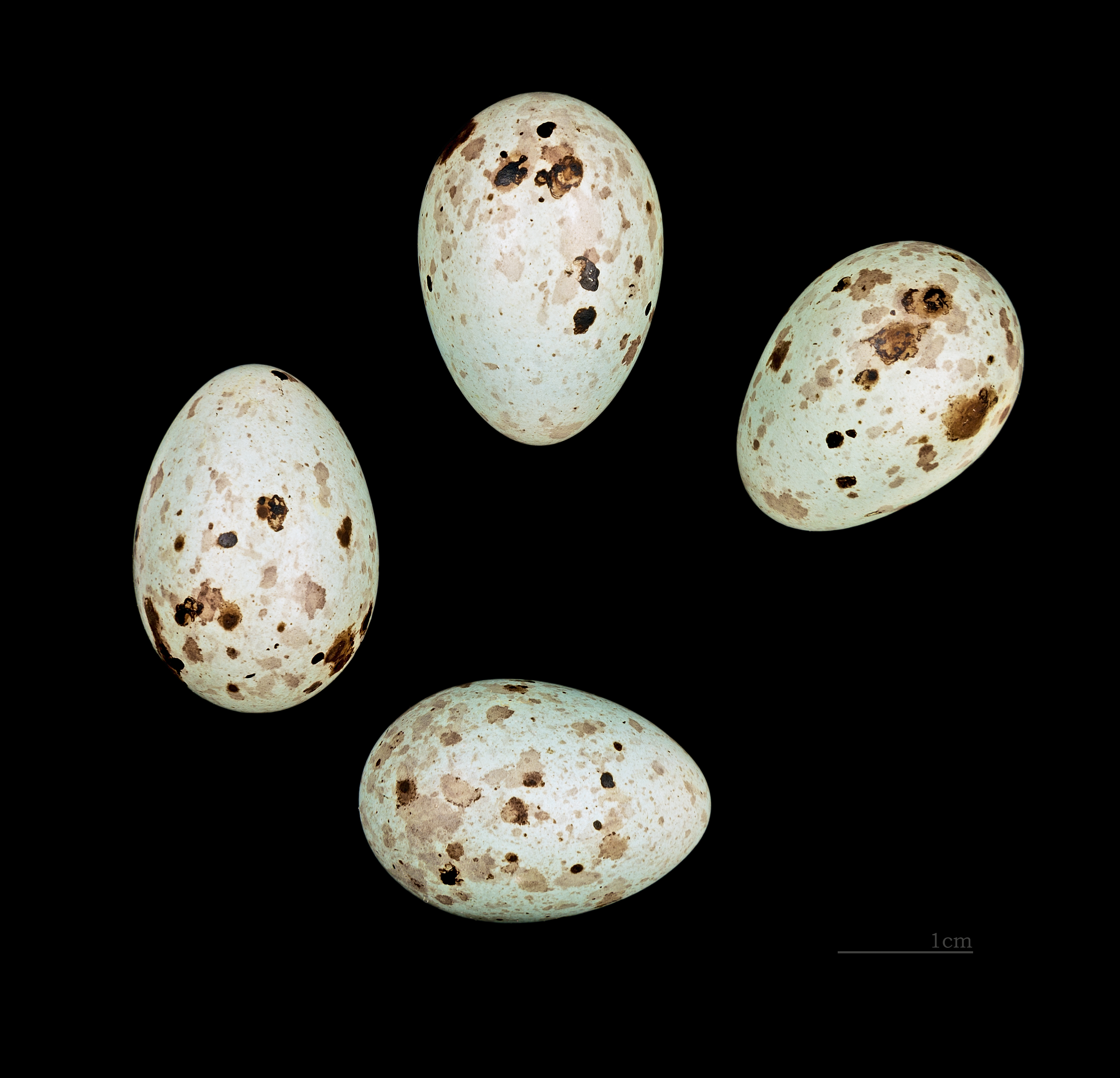 Egg of Pine Grosbeak. Collection of René de Naurois/Jacques Perrin de Brichambaut